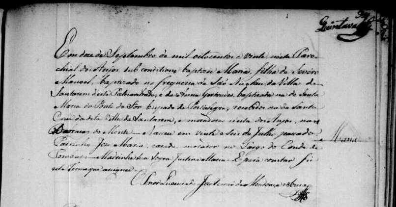 Baptism record of Maria Severa Onofriana (Anjos Parish, Lisbon), dated 12 September 1820. Currently in the Portuguese National Archives (Arquivo Nacional da Torre do Tombo).